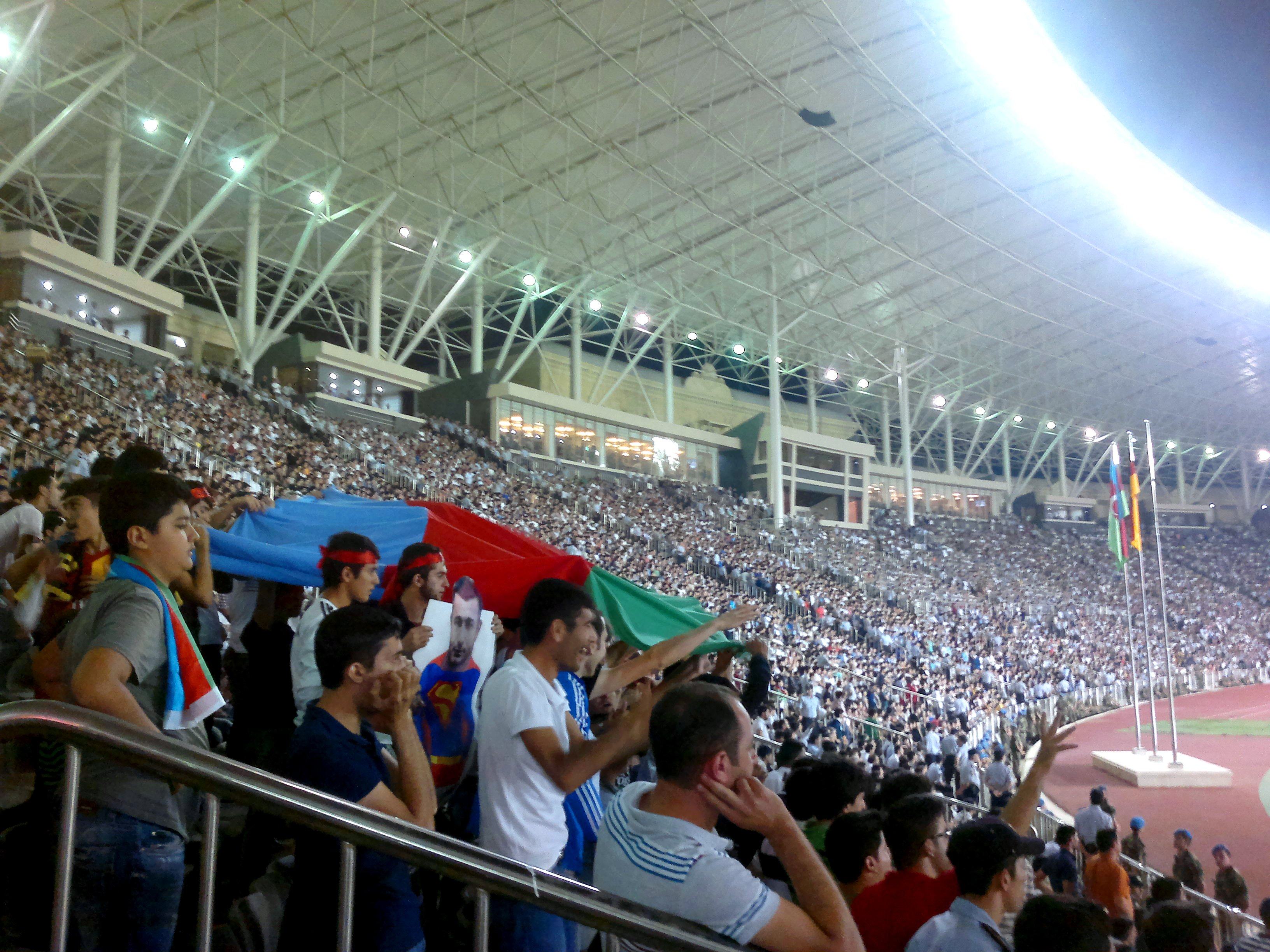 Fans of Karabakh FK (Azerbaijan).